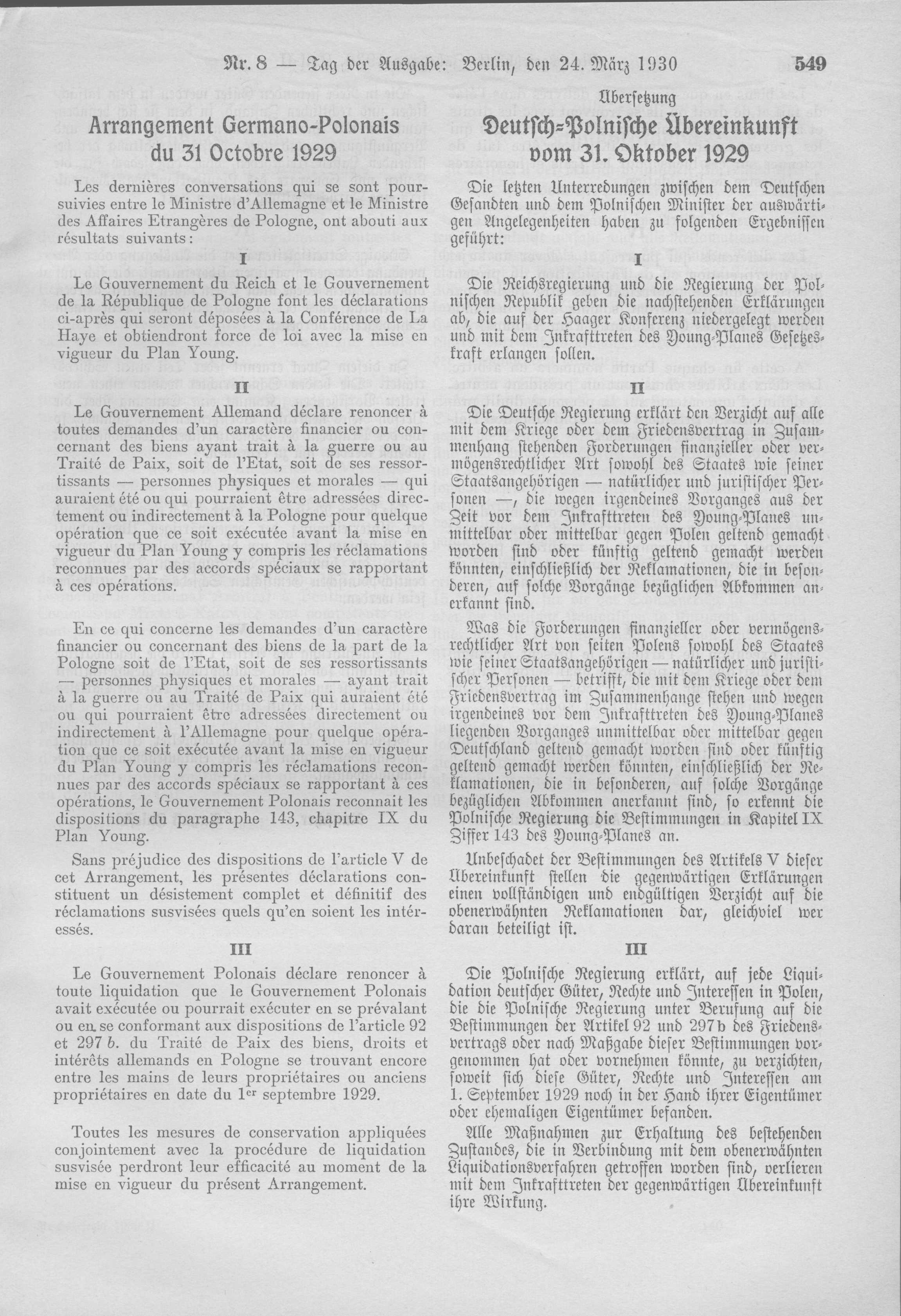 Scan from the Imperial Law Gazette of Germany, 1930, part 2